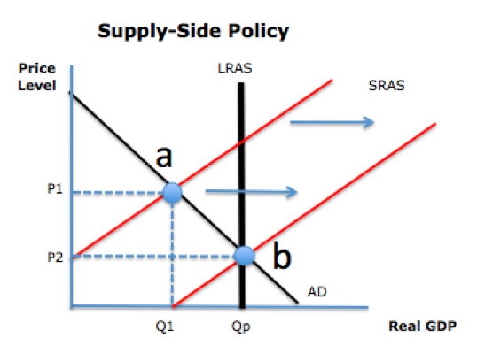 supply side policy